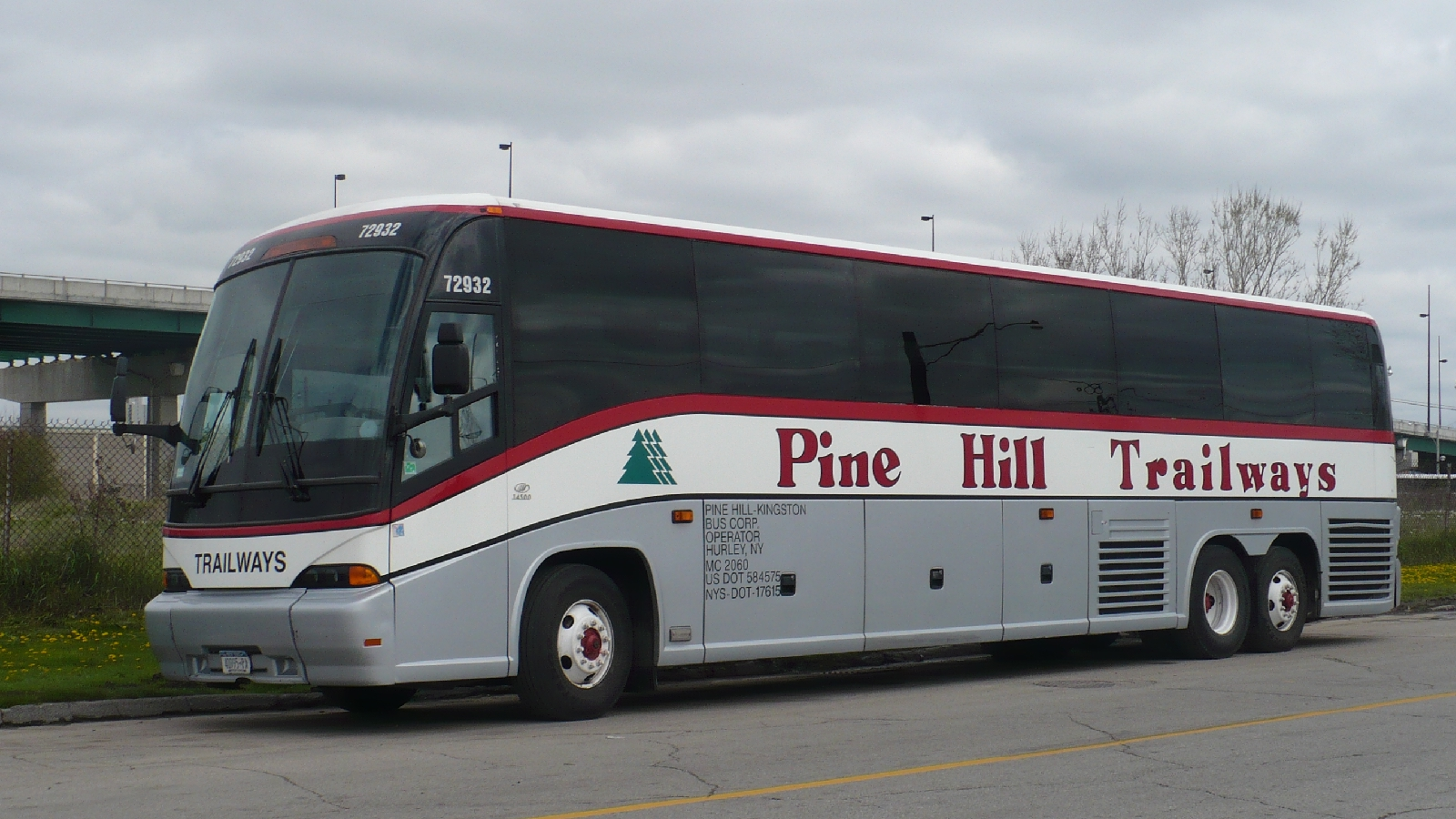 Pine Hill Trailways bus number 72932